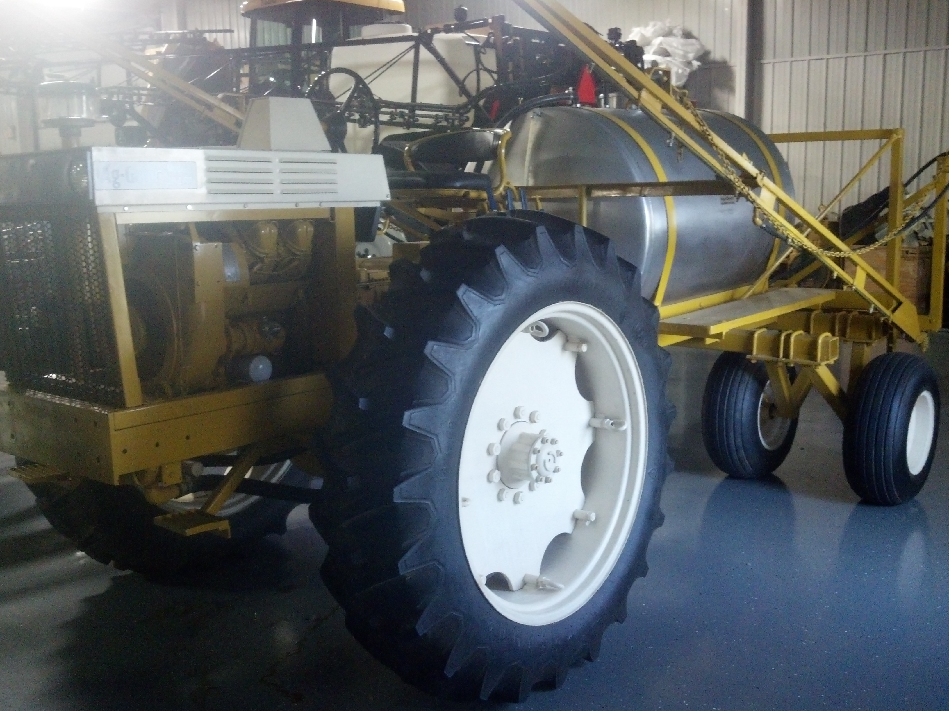 Ag-Gator 404SP located at AGCO Corporation's Jackson Manufacturing facility